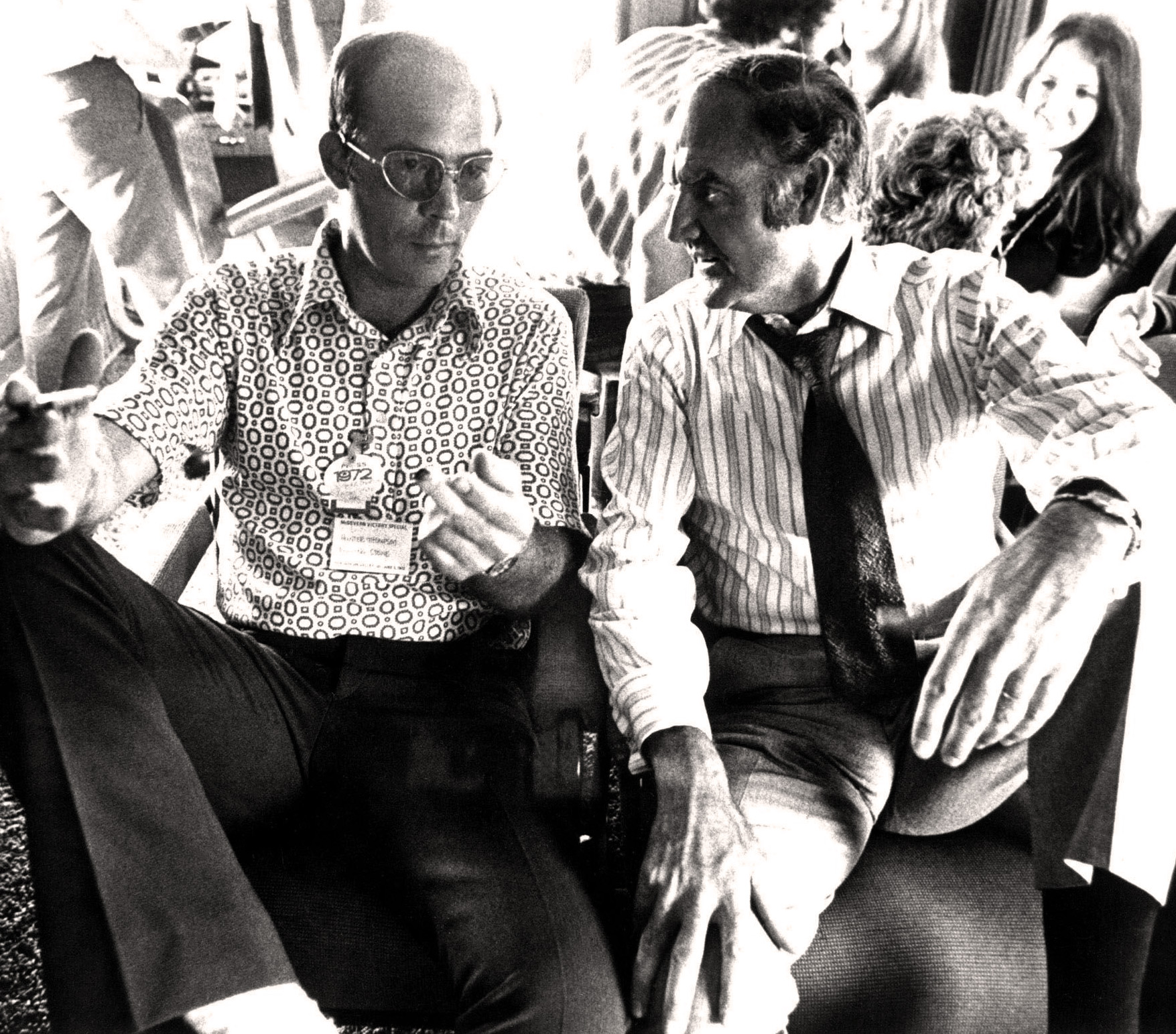 Portrait photograph of gonzo journalist Hunter S. Thompson and Democratic primary candidate George McGovern in San Francisco during the 1972 U.S. presidential election. Using his left hand, Thompson offers the photographer a discreet middle finger; the gesture seems to escape McGovern's notice. The original caption: "The Author explaining to Senator George McGovern why he cannot accept his offer of the Vice Presidency, on board the McGovern Victory Special during the California Primary in June 1972." The 1972 Democratic presidential primary in California took place on June 6, with McGovern as the victor in the winner-take-all state.